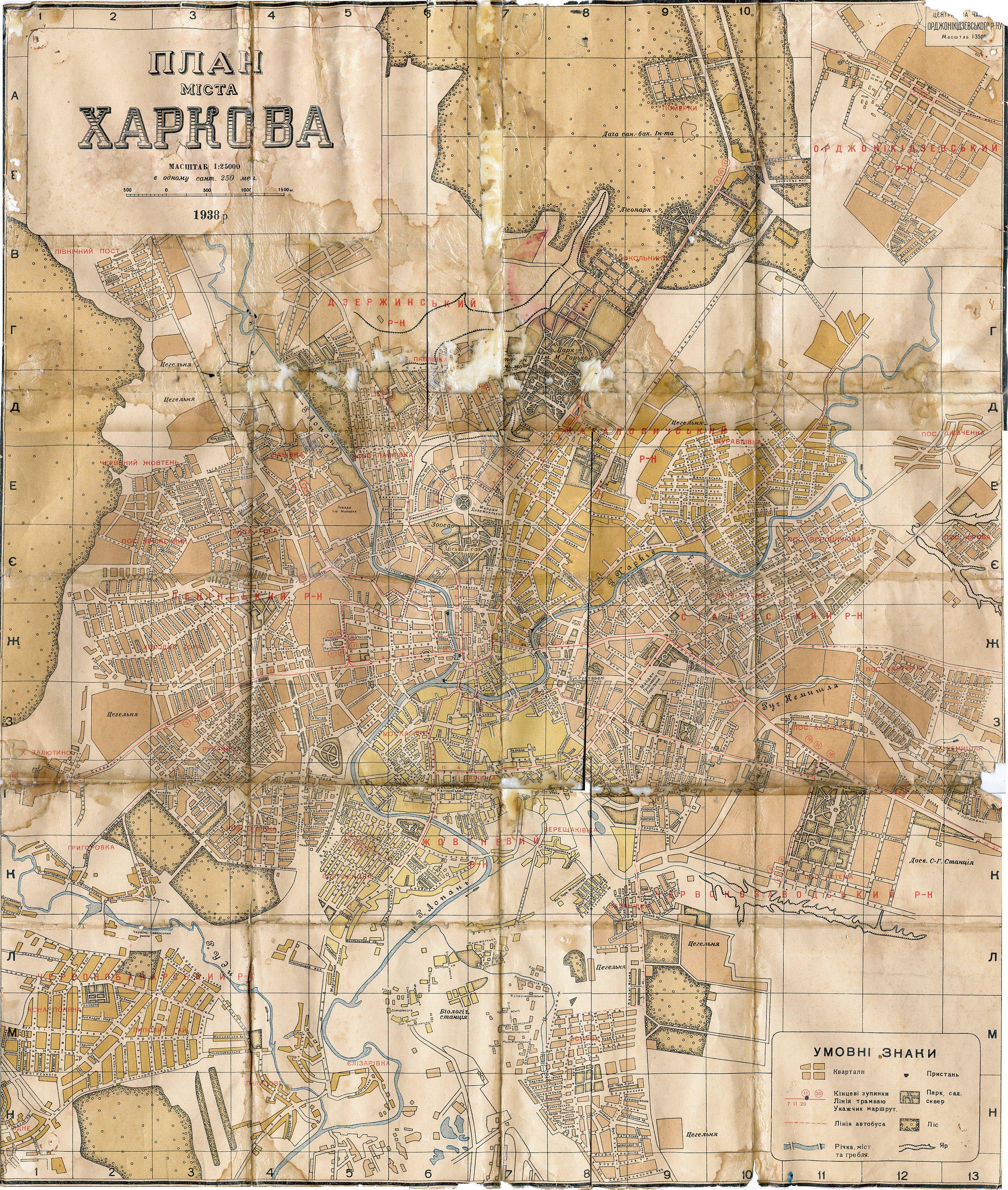 Map of Kharkov